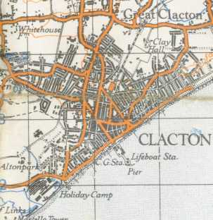 Reproduced from the 1940 OS map